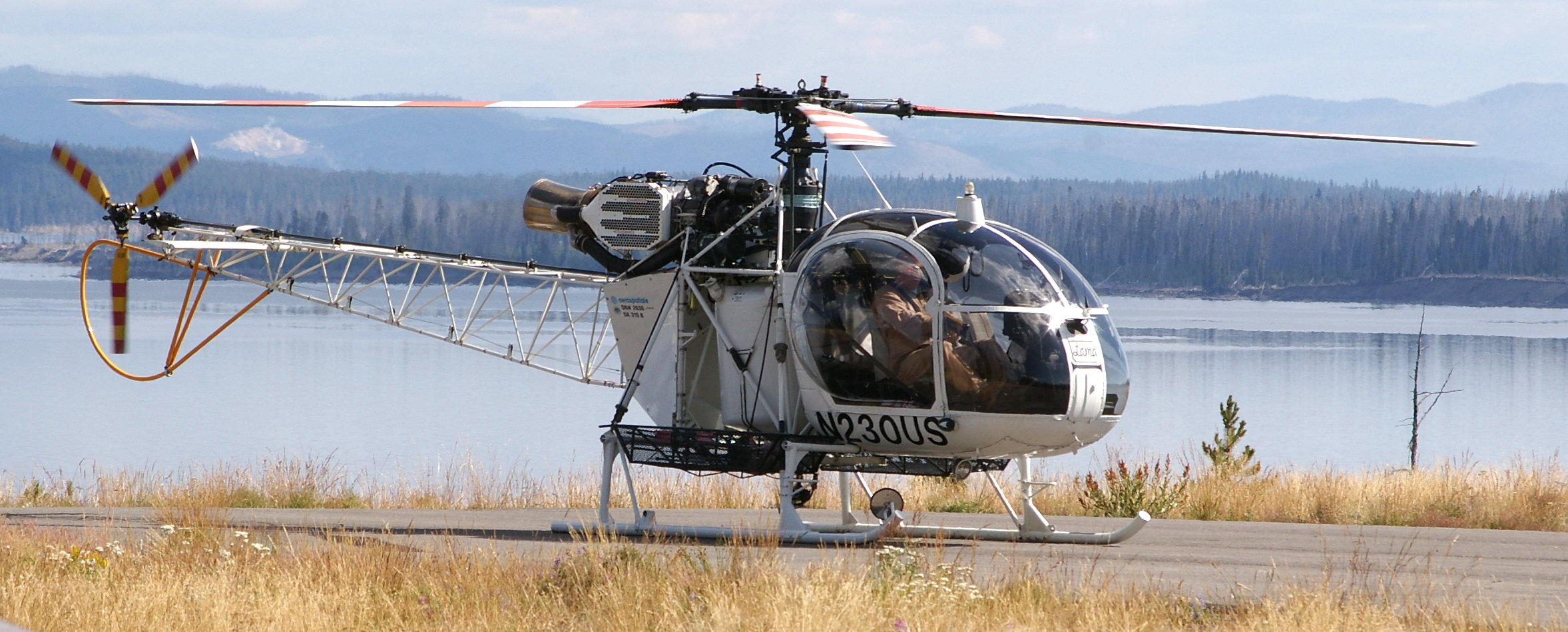 An Aerospatiale SA 315B "Lama" helicopter, operated by Croman Corporation. Photographed in Yellowstone National Park.